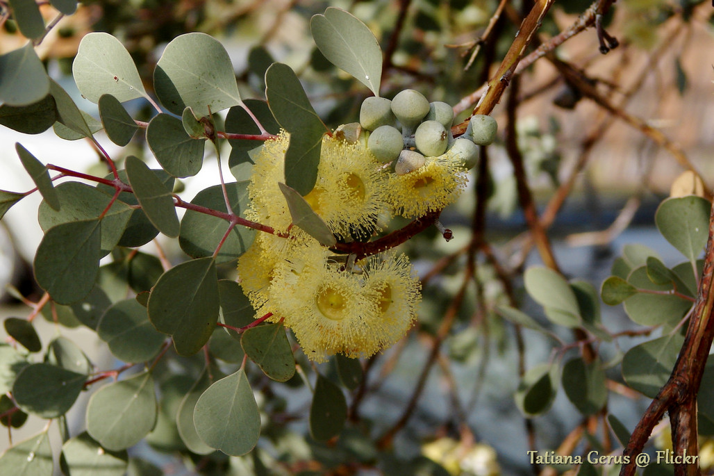 Identified as Eucalyptus orbifolia. Common Name: Round-leaved Mallee. Mallee (small tree) in Kings Park, Perth Australia Cultivated.